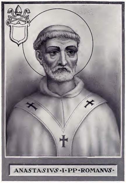 This illustration is from The Lives and Times of the Popes by Chevalier Artaud de Montor, New York: The Catholic Publication Society of America, 1911. It was originally published in 1842.